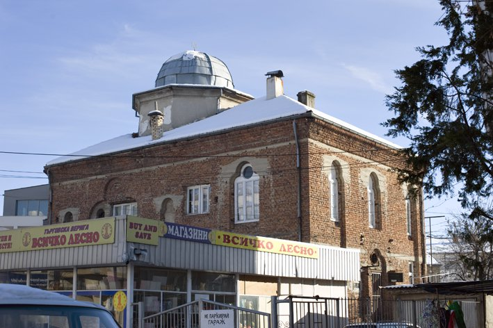 Gotse Delchev Synagogue